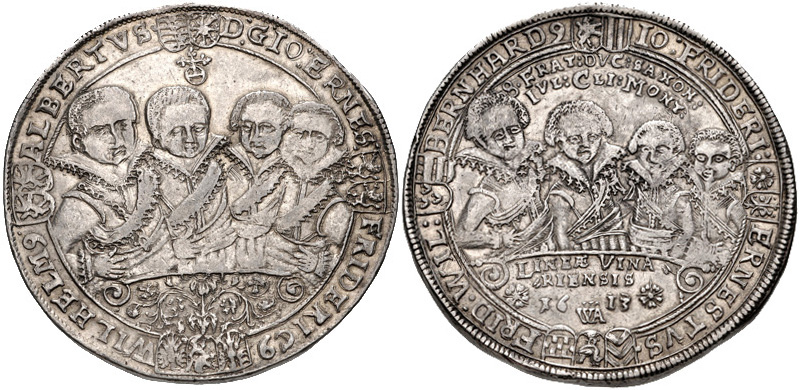 GERMANY, Sachsen-Alt-Weimar (Herzogtum). Johann Ernst, with his seven brothers. Duke, 1605-1620. AR Taler (40mm, 28.90 g, 6h). Saalfeld mint. Dated 1613. Armored half-length figures of Johann Ernst, Friedrich, Wilhelm, and Albrecht facing, all wearing elaborate collars / Armored half-length figures of Johann Friedrich, Ernst, Friedrich Wilhelm, and Bernhard facing, all wearing elaborate collars. Schnee 346; Davenport 7527.